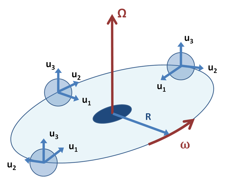 Center-facing orbiting coordinate system